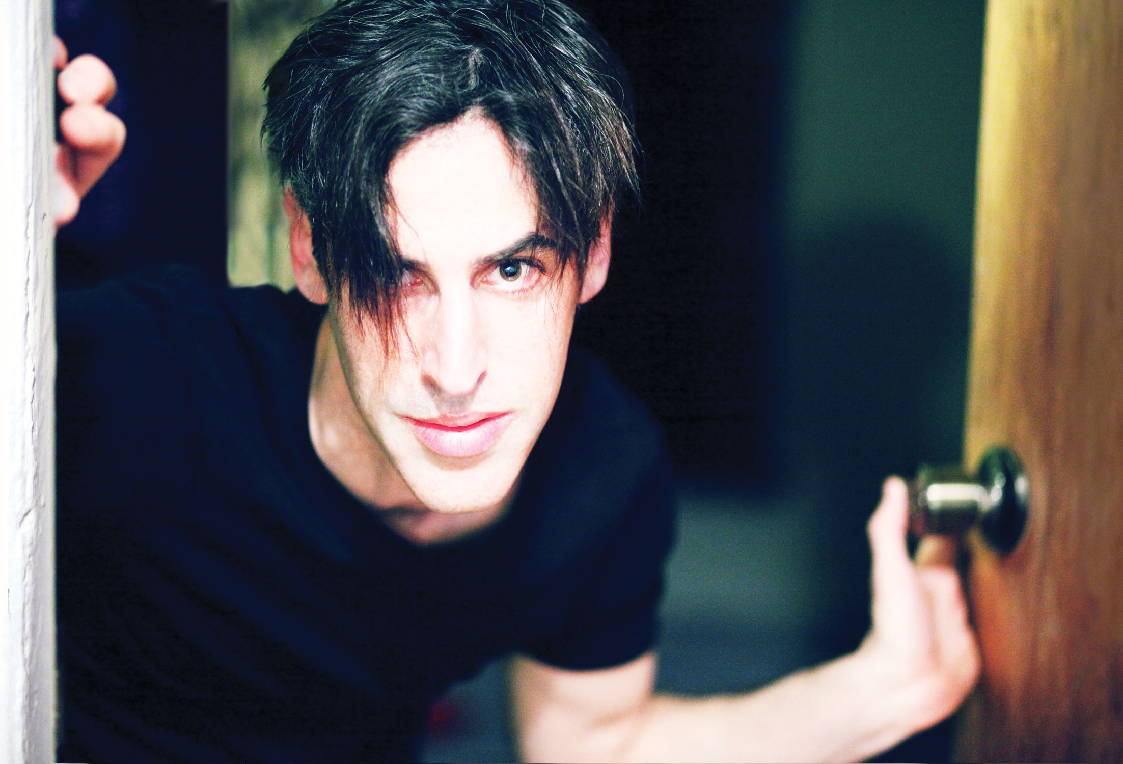 Sam Rosenthal, Brooklyn New York, 2009